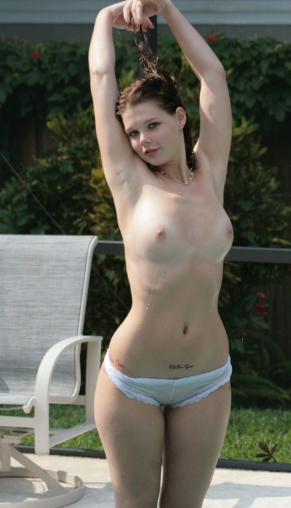 Morning Skinny Dip